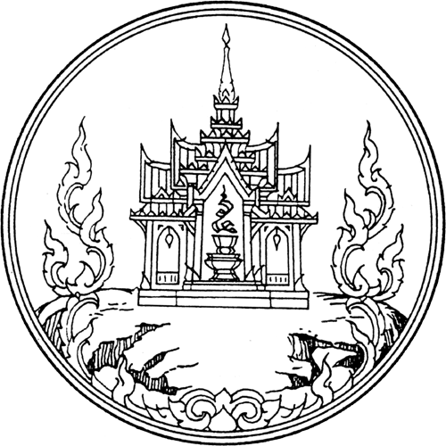 Provincial seal of the Ranong province, Thailand.